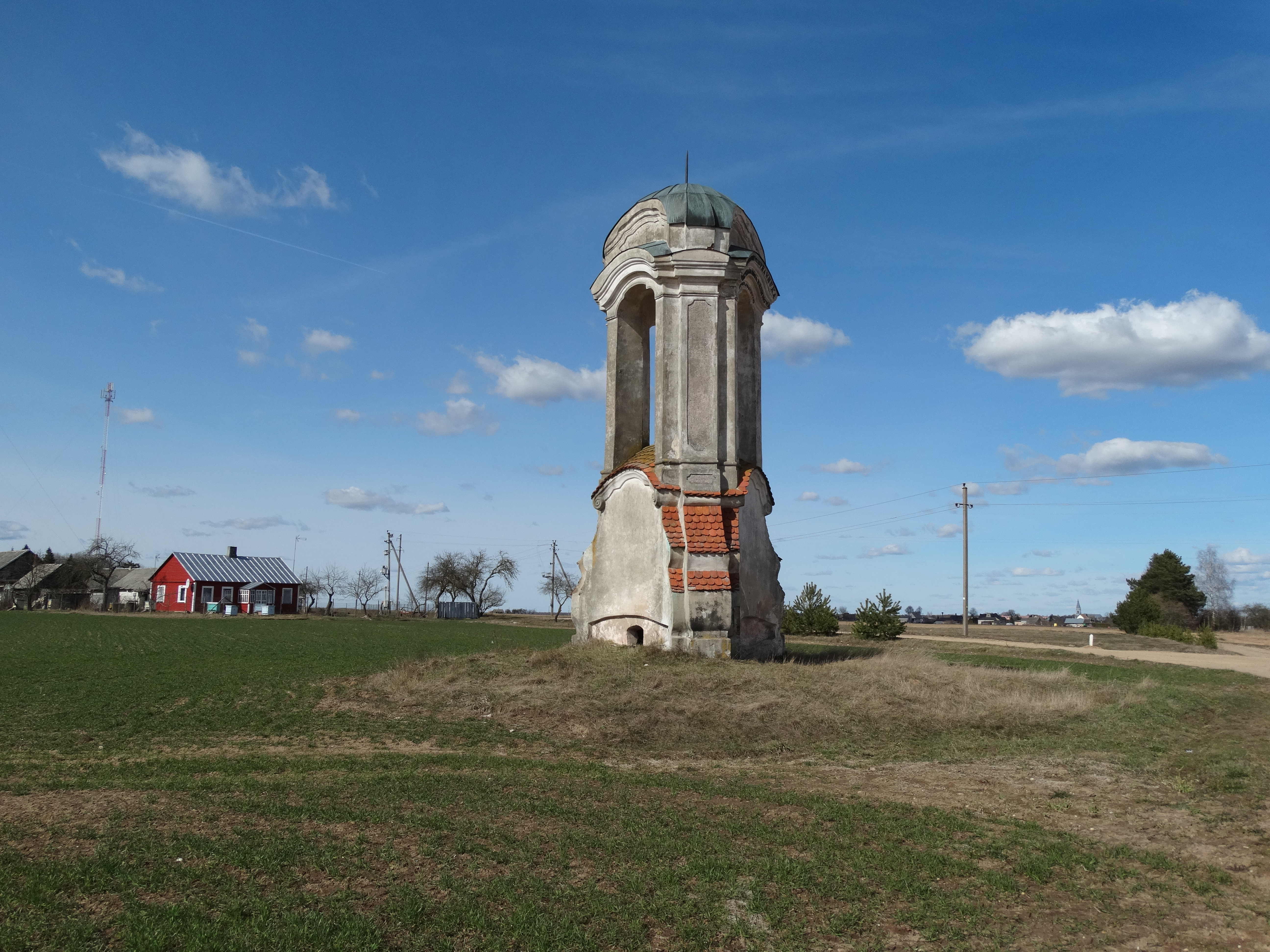 Wayside shrine, Normainiai II, Jonava district, Lithuania